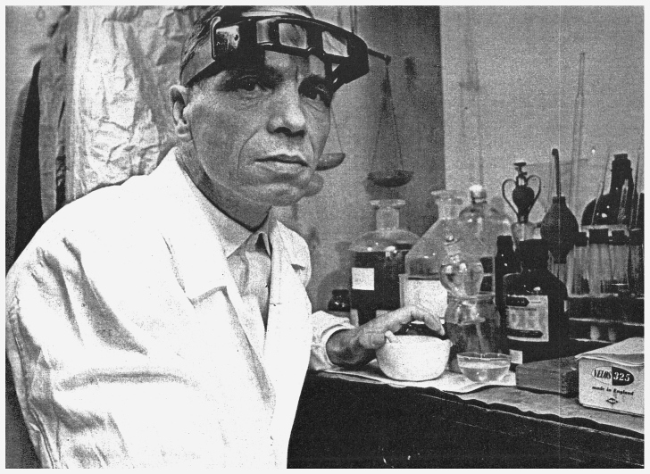 Photograph of the Finnish biologist Erkki Halme (1912–1989) in his private (home) laboratory.